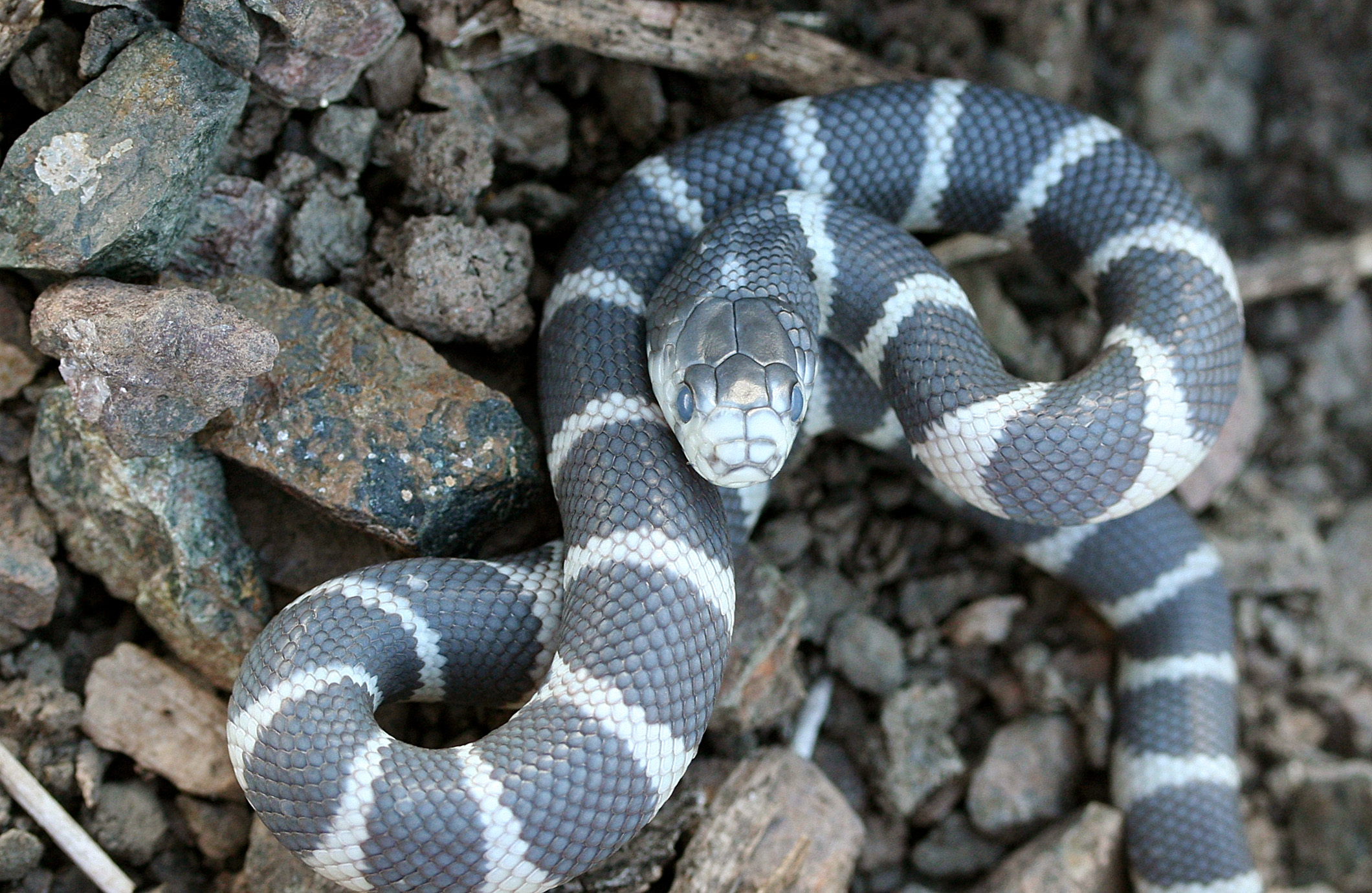 Young California Kingsnake (Lampropeltis getula californiae) taken at Coyote Hills Regional Park on the San Francisco Bay.